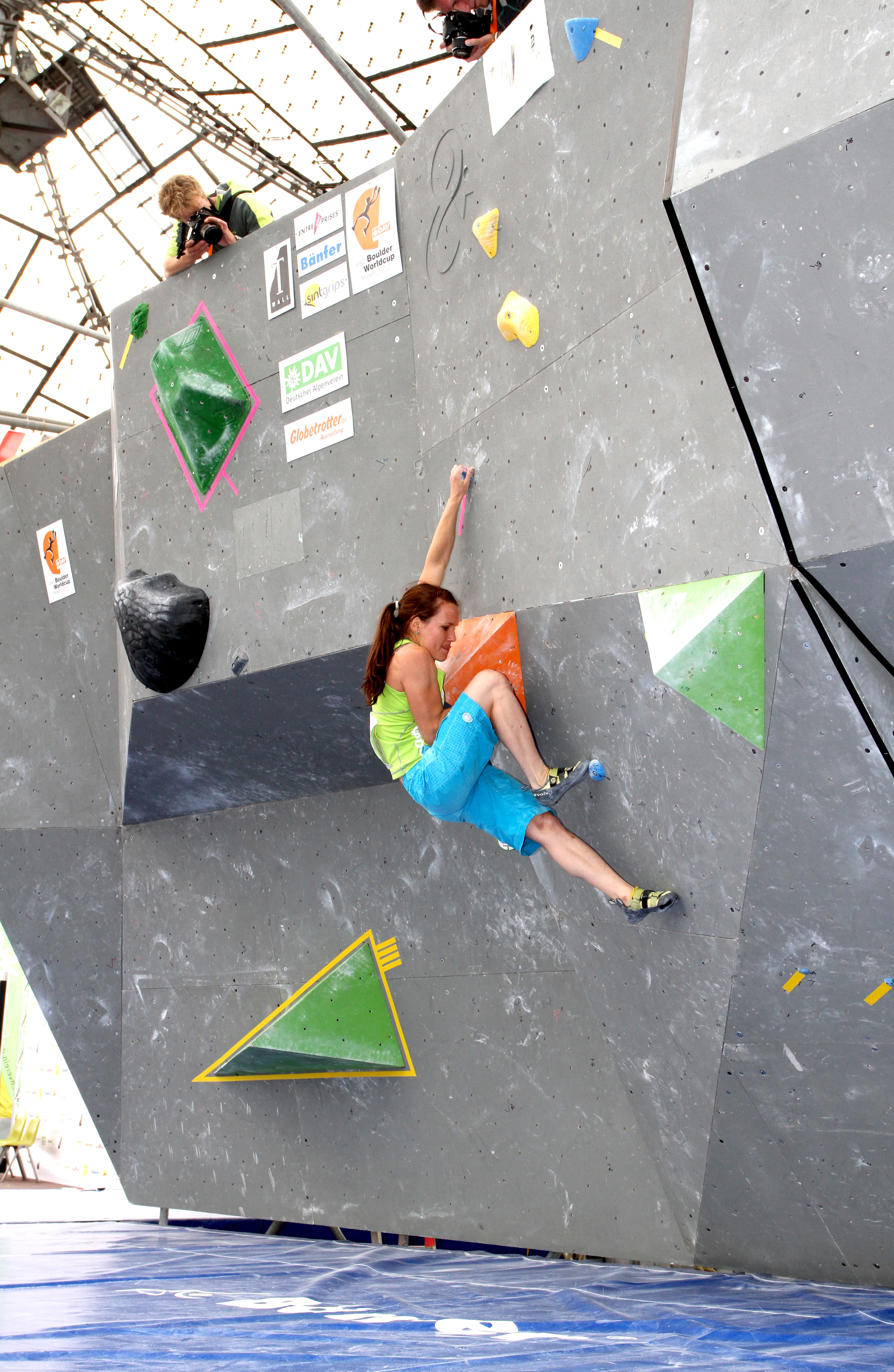 Dorothea Karalus, GER at the Boulder Worldcup 2012